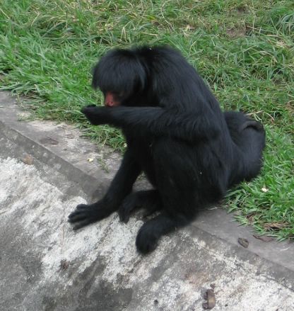 Ateles paniscus at the Rio Zoo, Rio de Janeiro, Brazil.